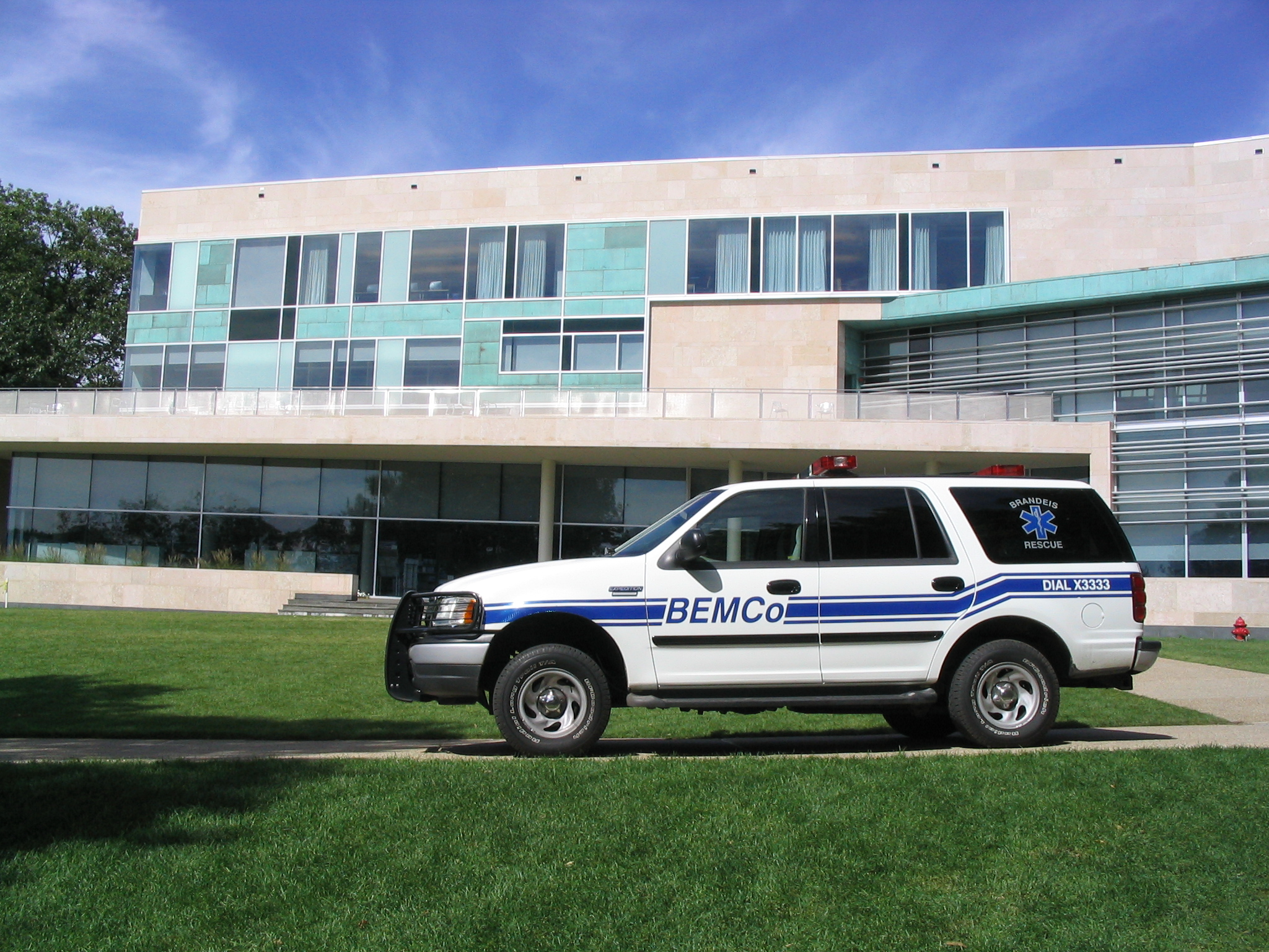 BEMCo Truck